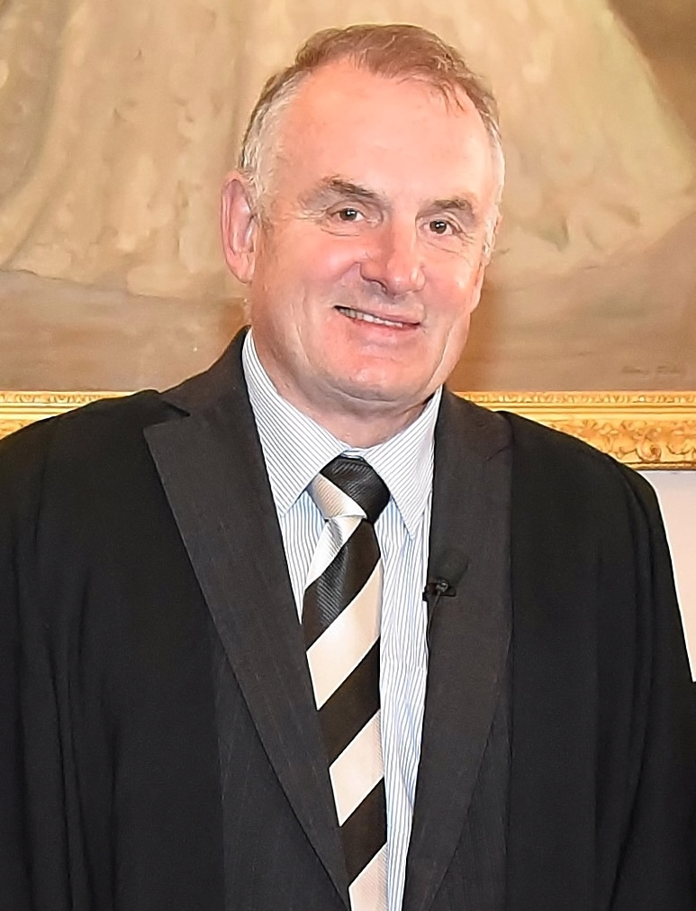 Trevor Mallard in speakers robes